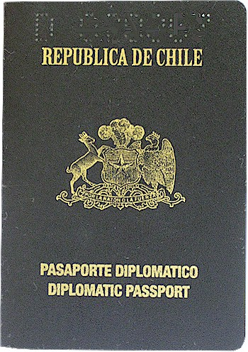 Chilean Diplomatic Passport since 2005